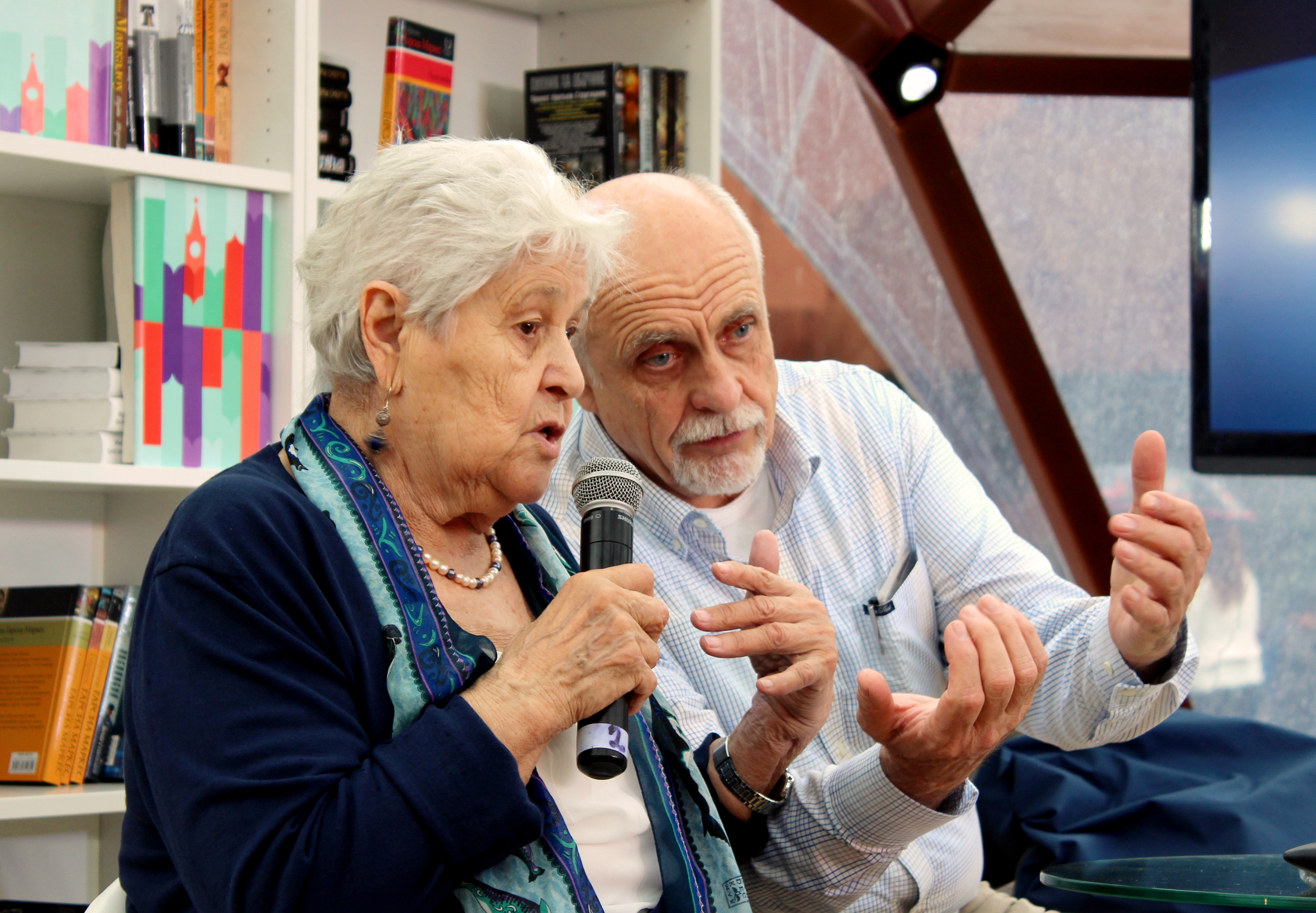 Two scientists, but one family. She is a Doctor of Psychology, a professor of general psychology at Moscow State University. He is a professor of mathematics, a member of the Norwegian Royal Society. Their talents are different but the success is combined. Mysterious psychology and accurate mathematics came together and round each other out. The photo shows the speech of Julia Gippenreiter and her husband Alexei Rudakov on Red Square in June 2015.